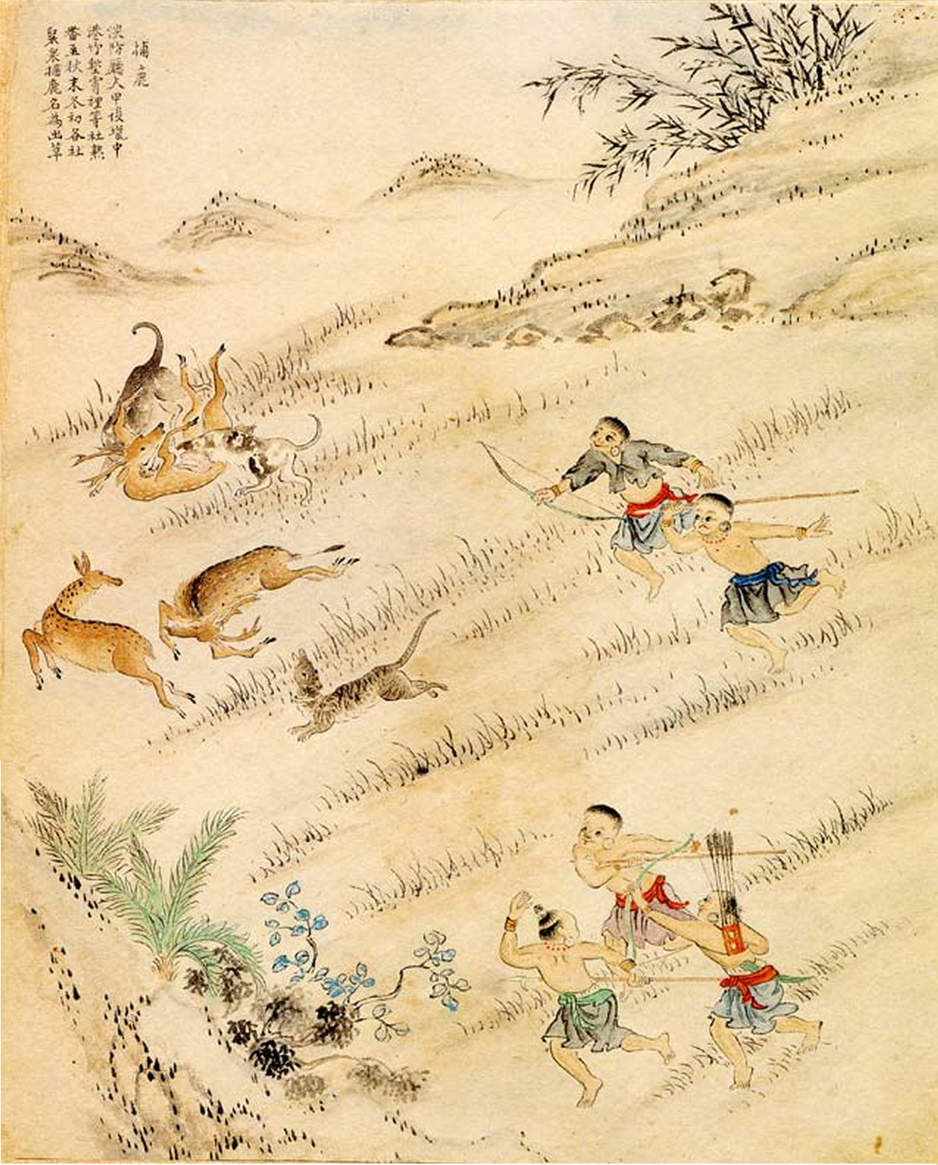 Hunting Deer: Before this piece was drawn, the natives hunted for subsistence, calling the act "stepping onto the grass". The act became a custom instead: those above the age of 10 trained with the bow to the point where they shoot with unerring accuracy up to thirty, forty paces. When the grass grew lush in spring, the tribes harkened to the call for the hunt, bringing all tools and hunting dogs. They hunted in all directions, piercing the throats of deer for blood and roasting rabbits and fowls on spits. The innards were gathered and fermented to be a delicacy called "meat shoots" The skins and furs were traded with the Han Chinese for salt, rice, tobacco, cloths and other items.